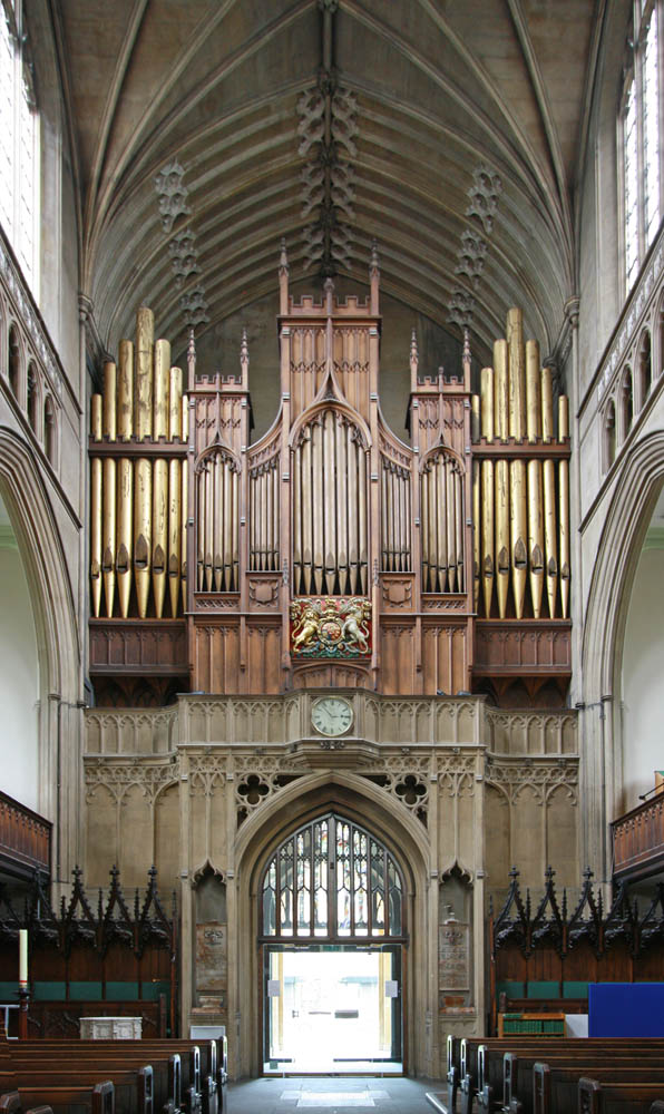 St Luke, Sidney Street, Chelsea, London SW3 - West end, near to Chelsea, Kensington And Chelsea, Great Britain.